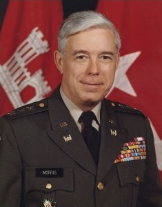 Lieutenant General John W. Morris, Chief of Engineers July 1, 1976–September 30, 1980.